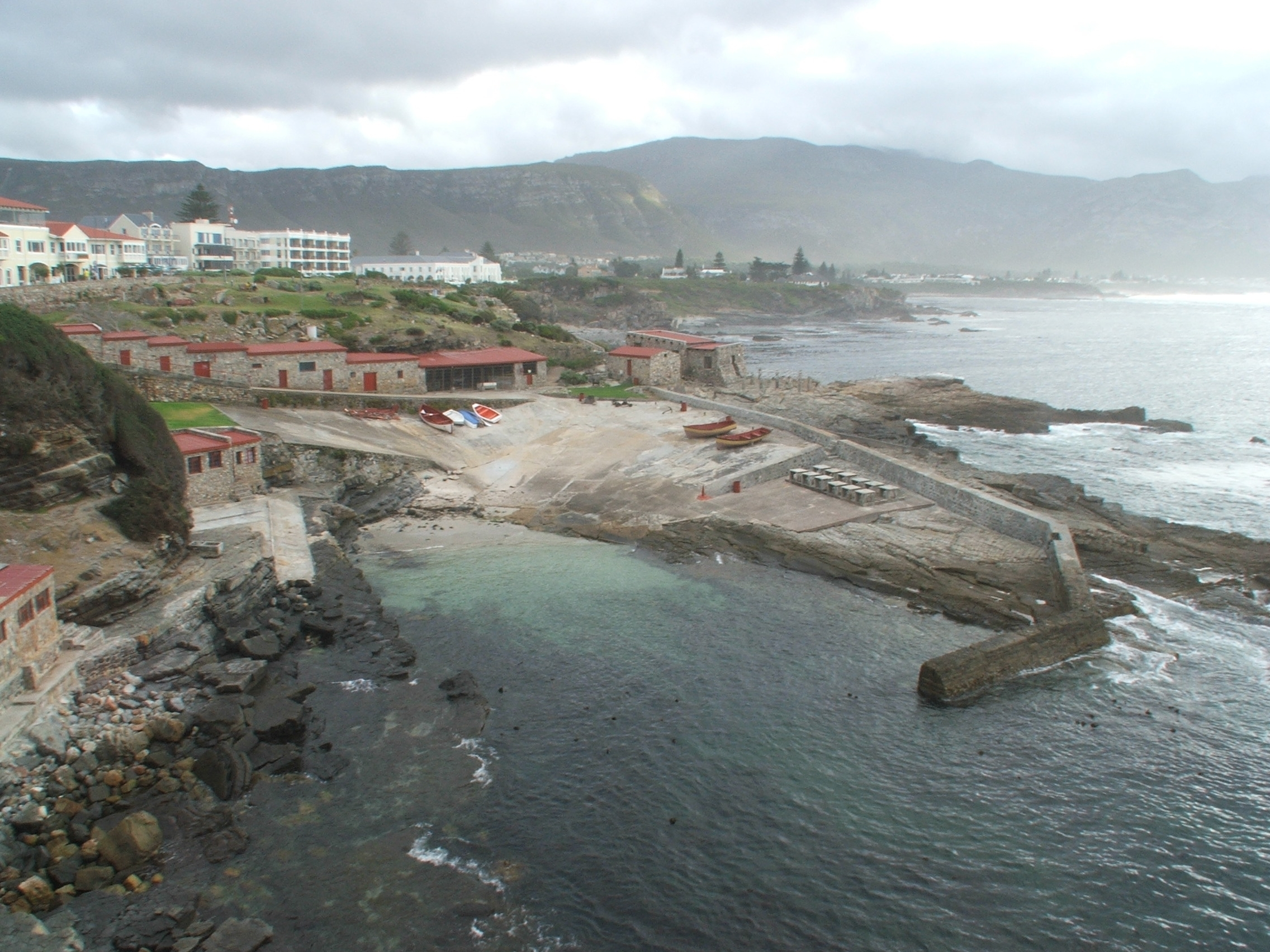 Scenic Old Harbour & Walker Bay early on the late summer morning of 18 Feb 2006